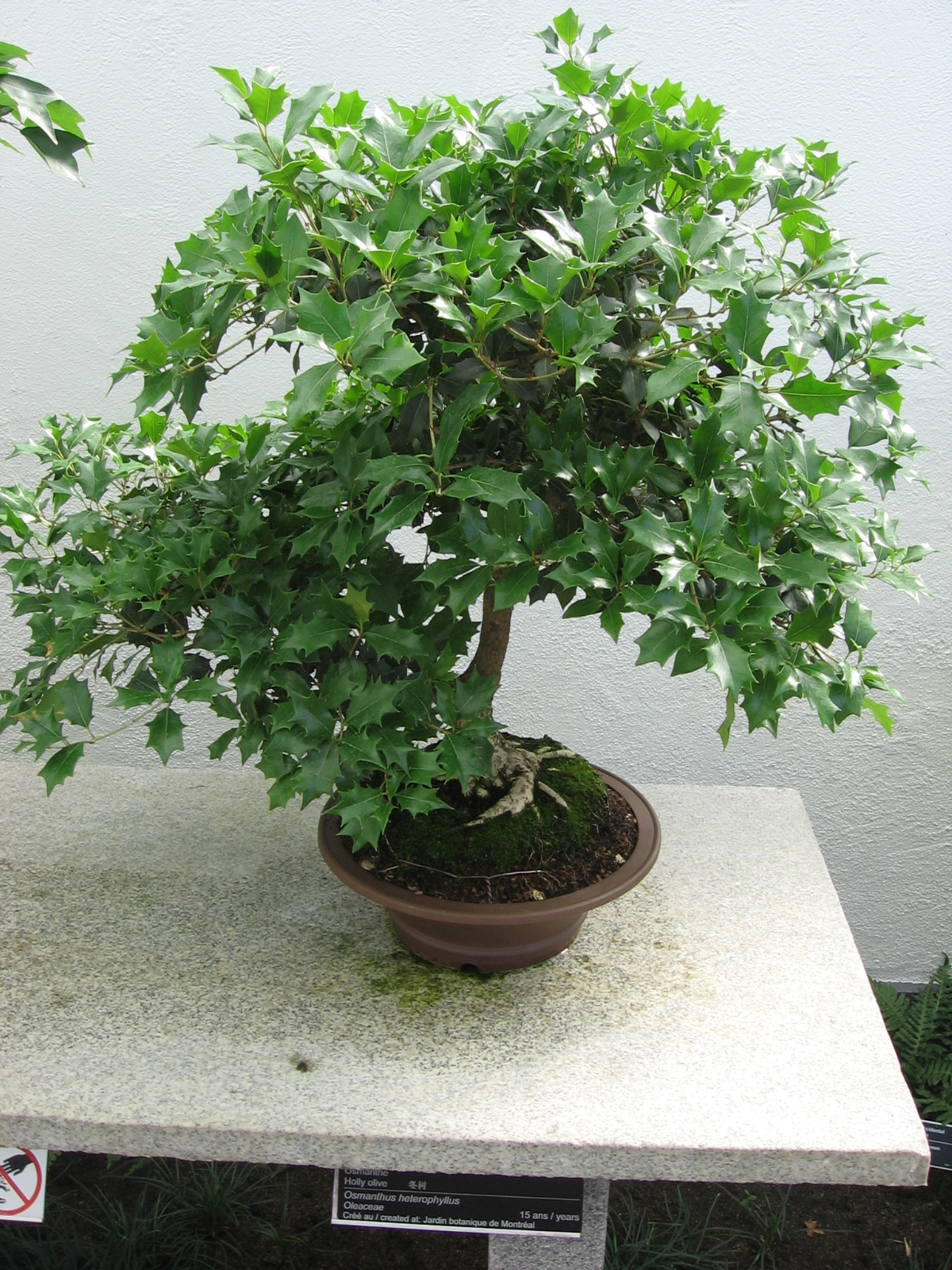 Osmanthus heterophyllus bonsai, Jardin botanique de Montréal